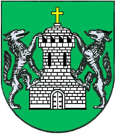 Coat of Arms of the Counts of Ribeira Grande